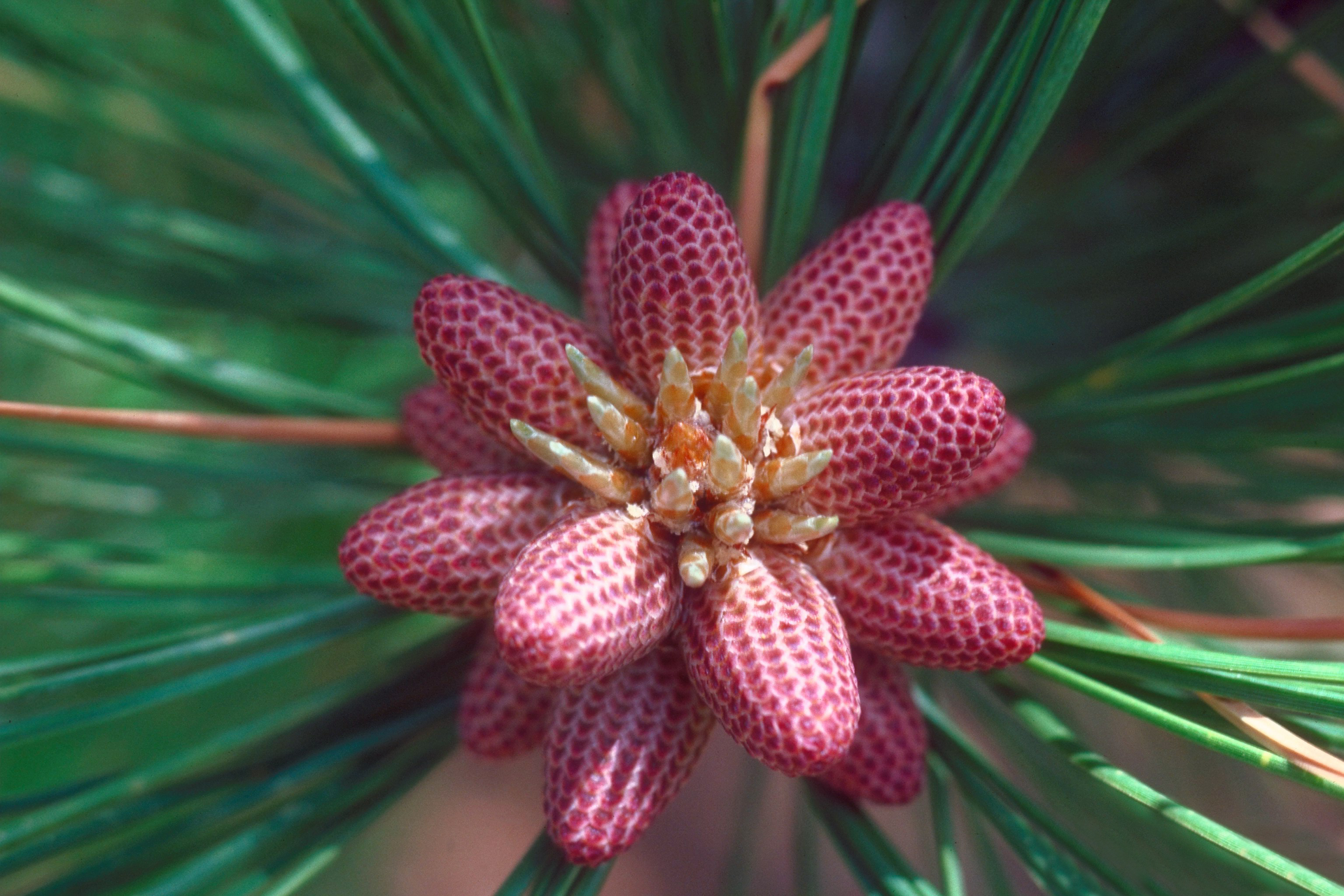 Pinus ponderosa subsp. scopulorum pollen cones. Pike and San Isabel National Forests, south-central Colorado, USA.